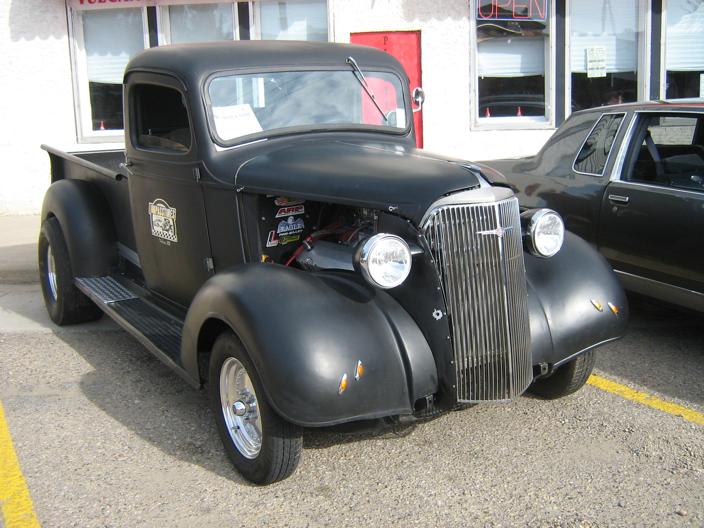 1937 Chevrolet customized pickup truck.